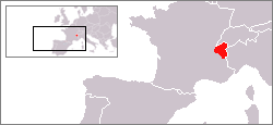 Map of the Pays de Savoie. From Image:Basque Country location map.png *Other versions=Image:Basque Country location.png * (del) (cur) 09:59, 24 June 2004 . . Nathan Hamblen . . 250x115 (3653 bytes) (Historical Basque Country's general location) ==